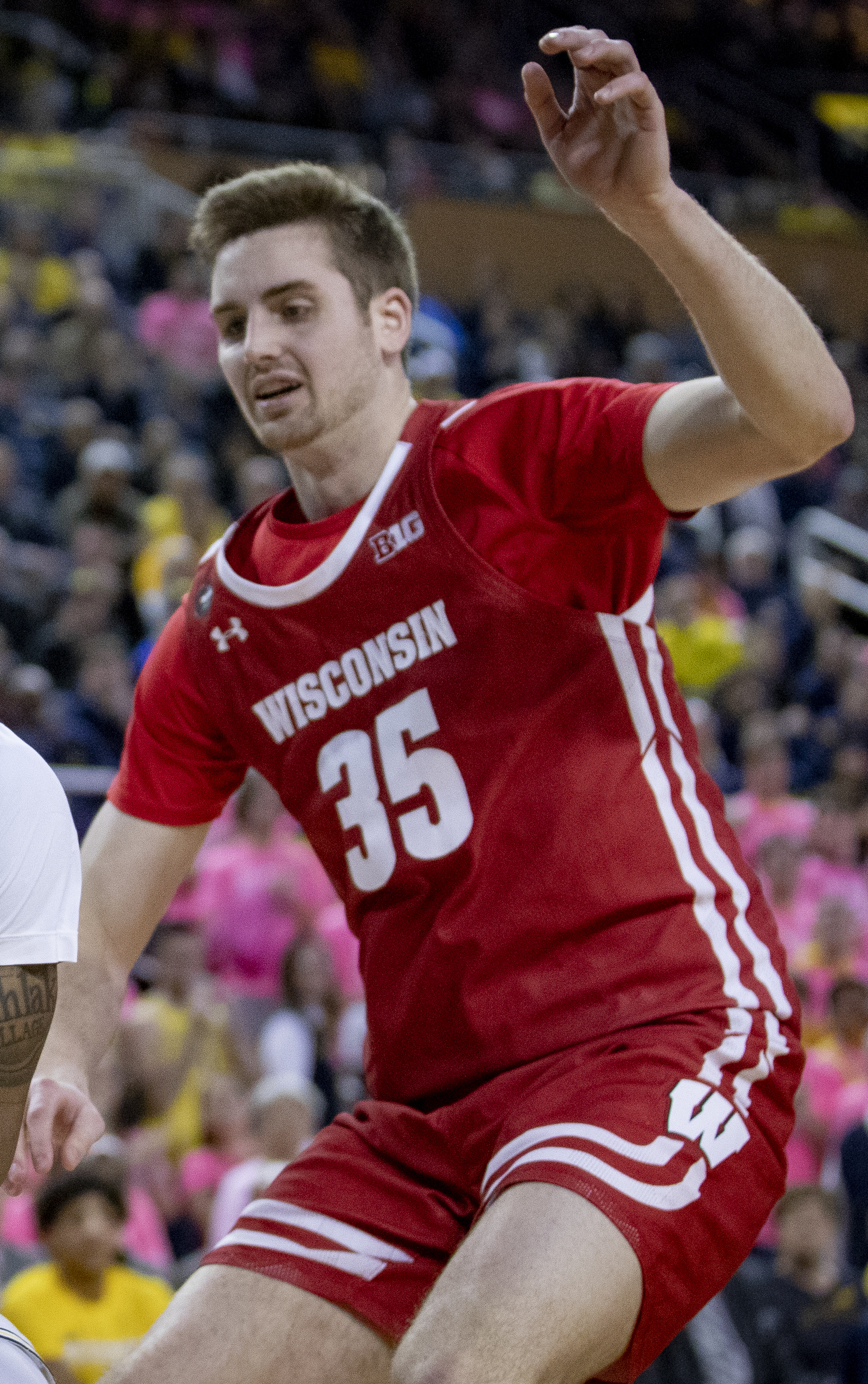 Michigan's Zavier Simpson being defended by Wisconsin's Nate Reuvers in February 2020